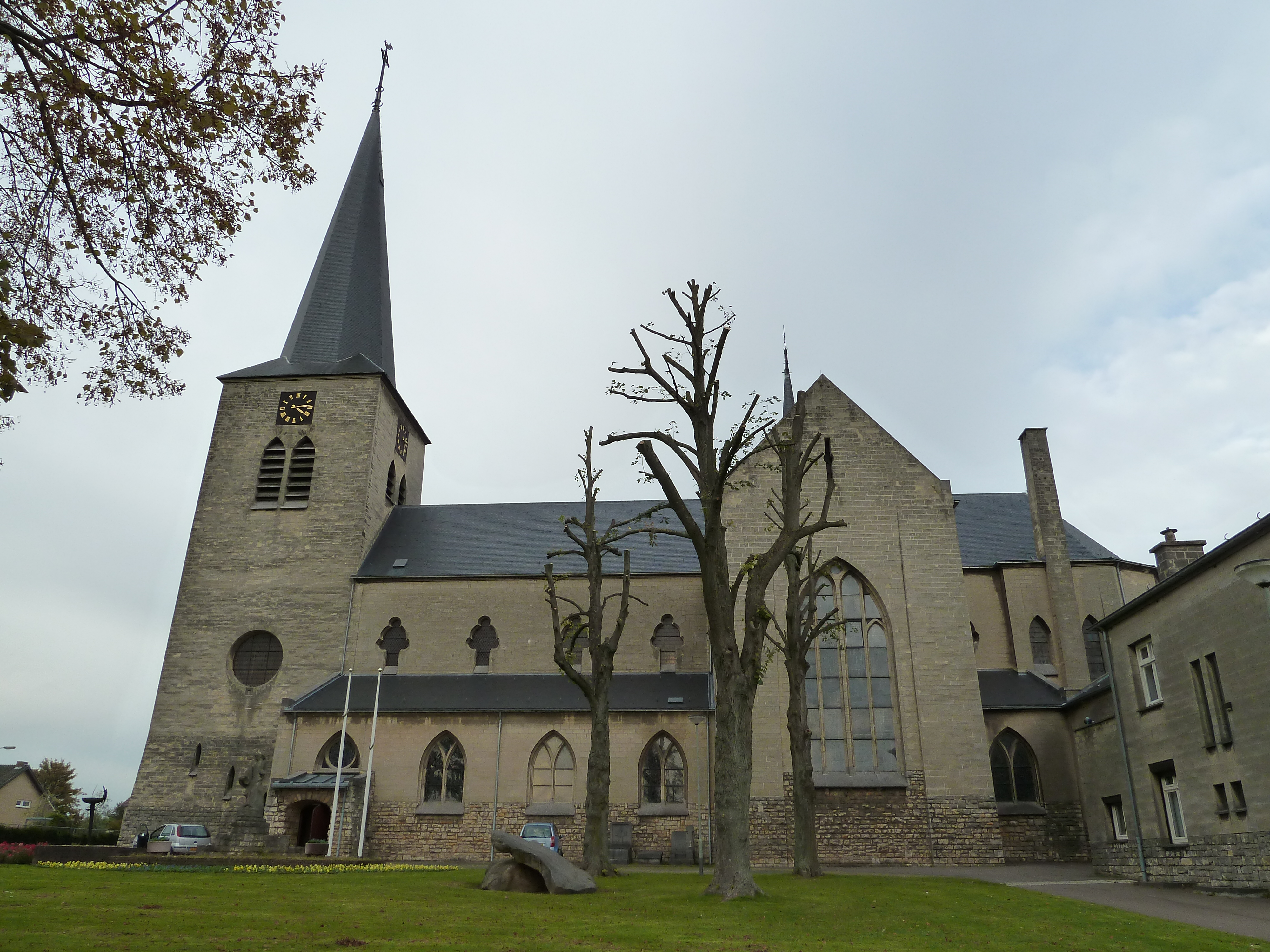 Church, Berg, Limburg, the Netherlands